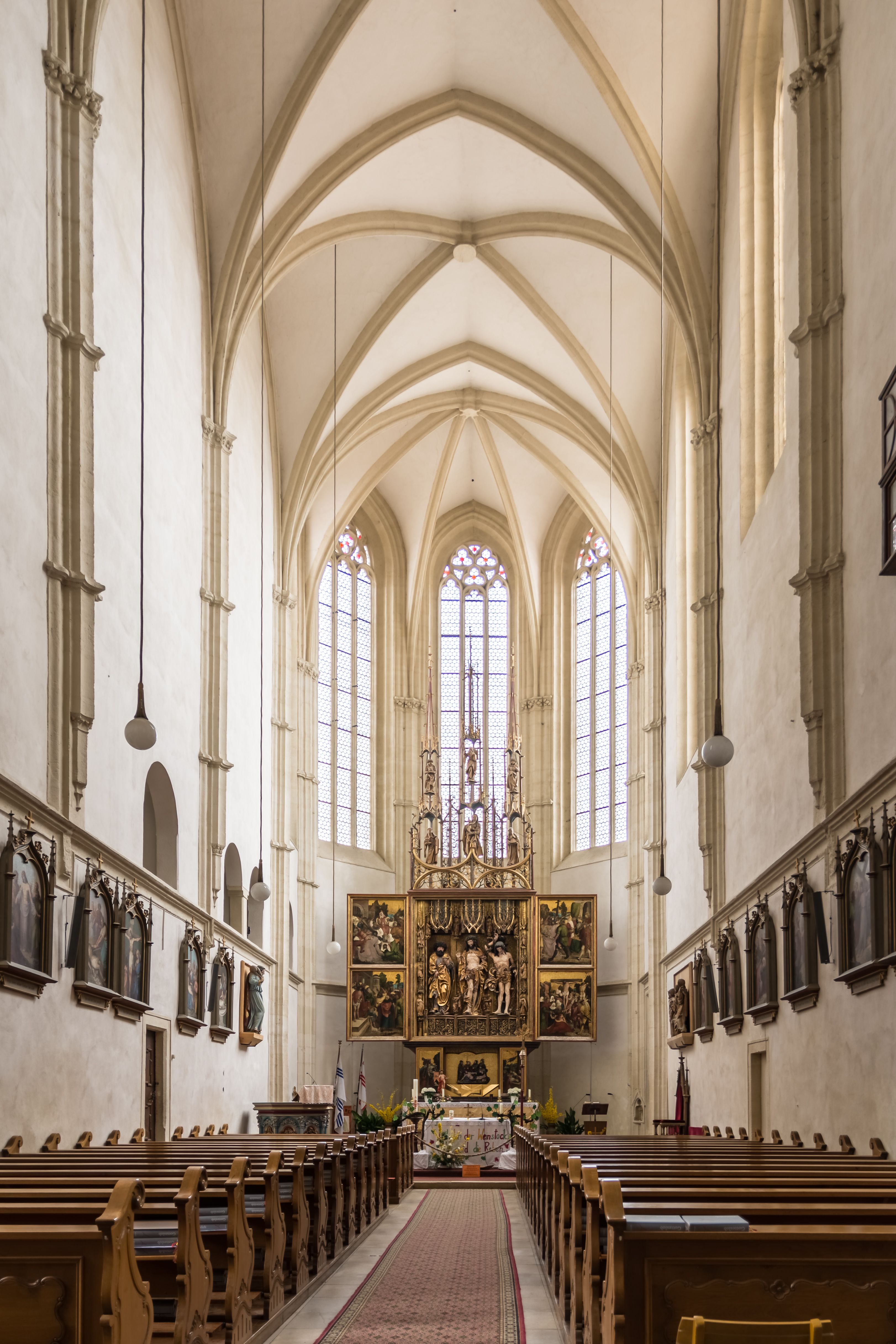 Interior of the Church of the Holy Blood in Pulkau, Lower Austria